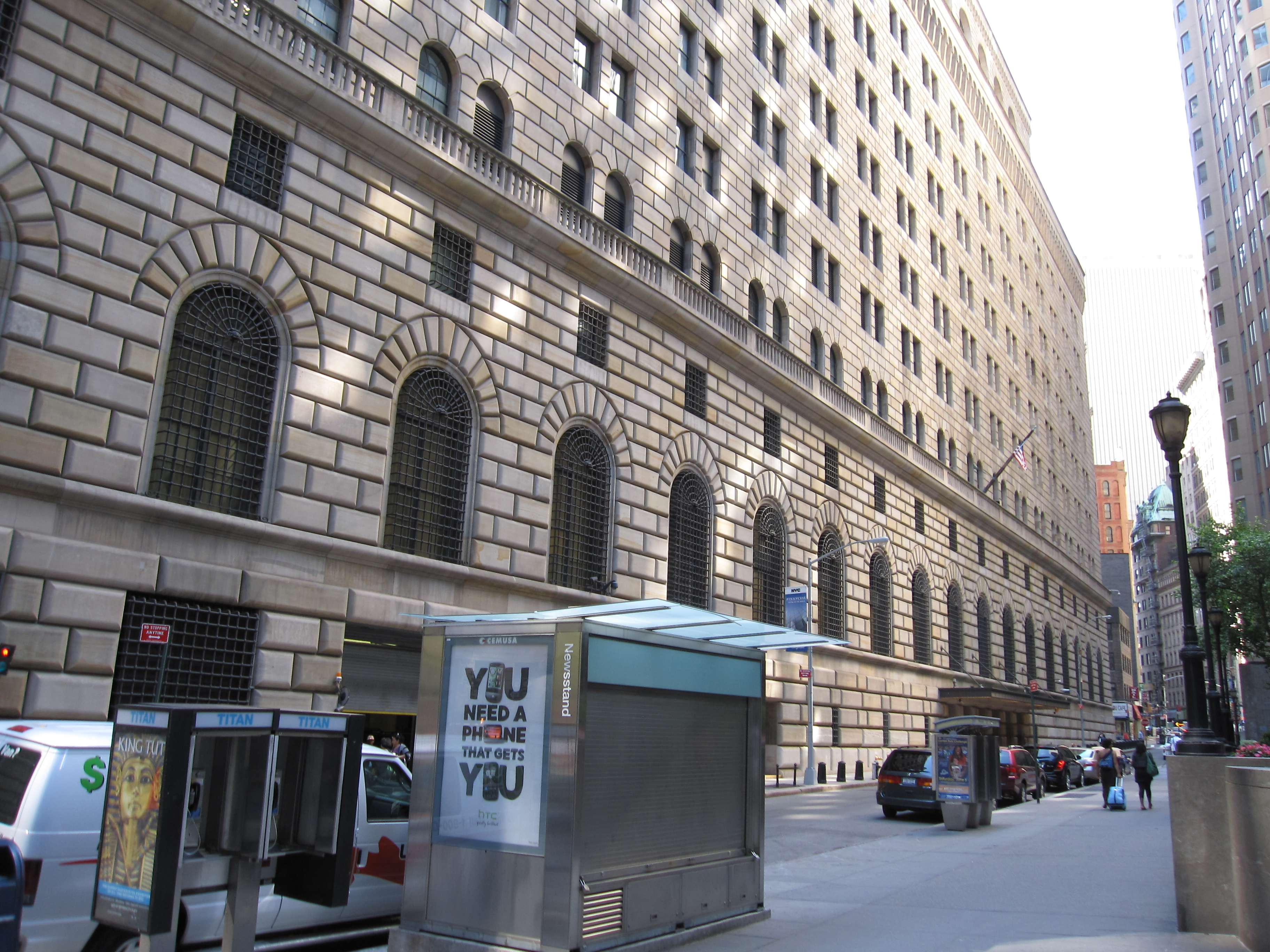 33 Liberty Street